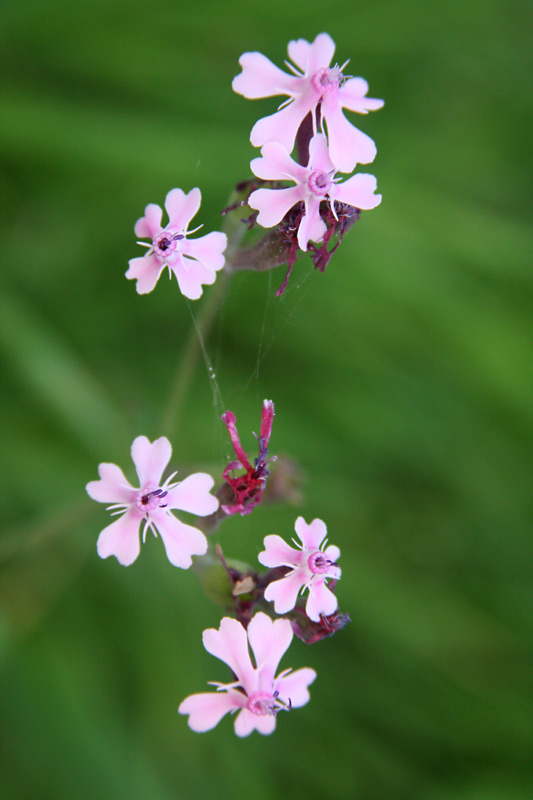 Egyptian Campion , Plants of Israel